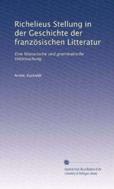 Armin Rückoldt's "Richelius Stellung in der Geschichte der französischen Litteratur", new cover.